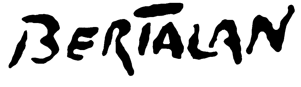 A variation of Albert Bertalan´s signature.